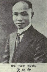 Huang Xuchu (Huang Hsü-ch'u) (1892 - 1975)